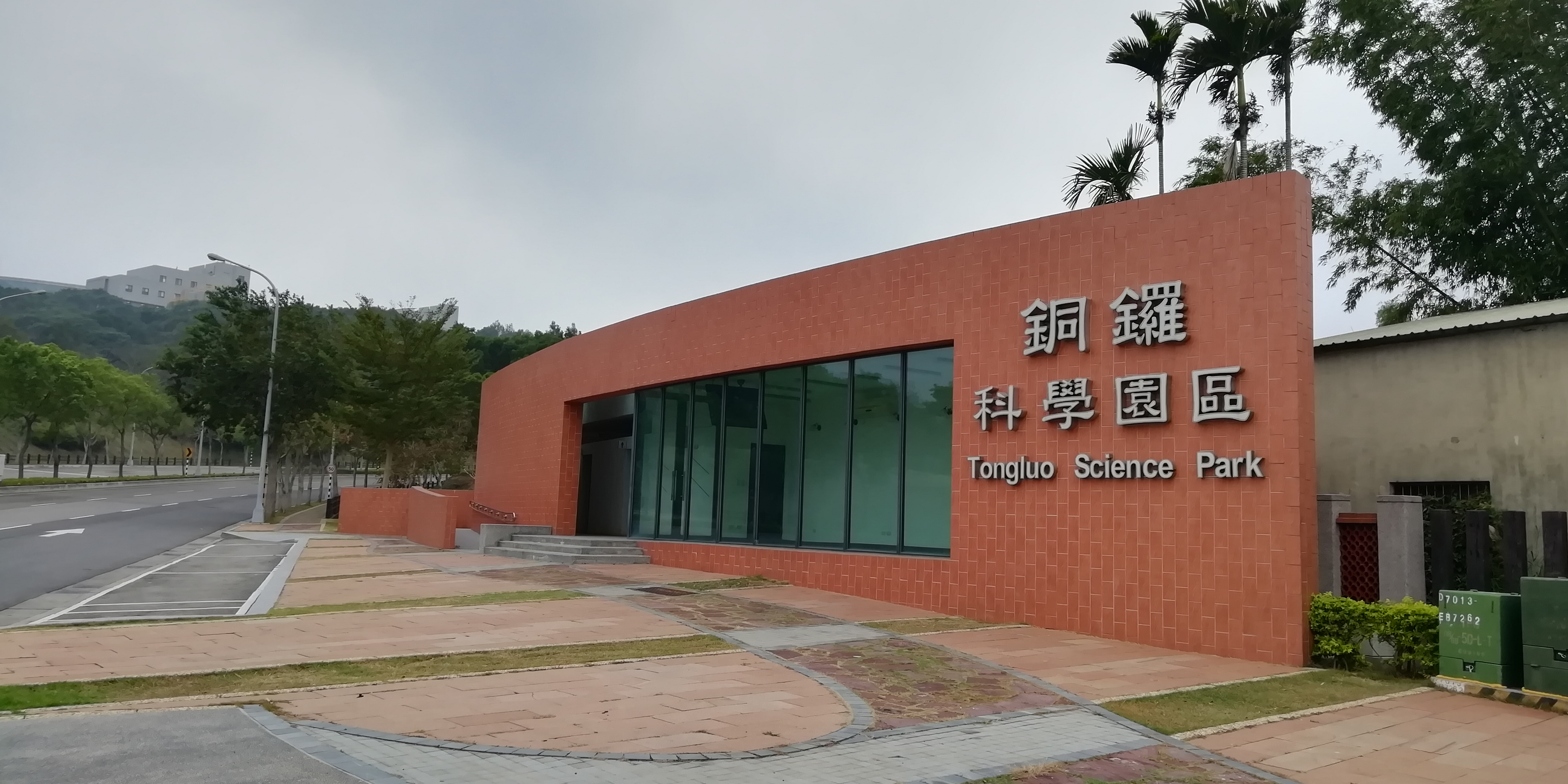 Tongluo Science Park